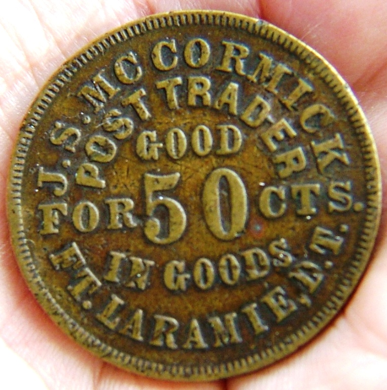 Ft. Laramie, Dakota Territory brass trade token, photo by Jerry Adams